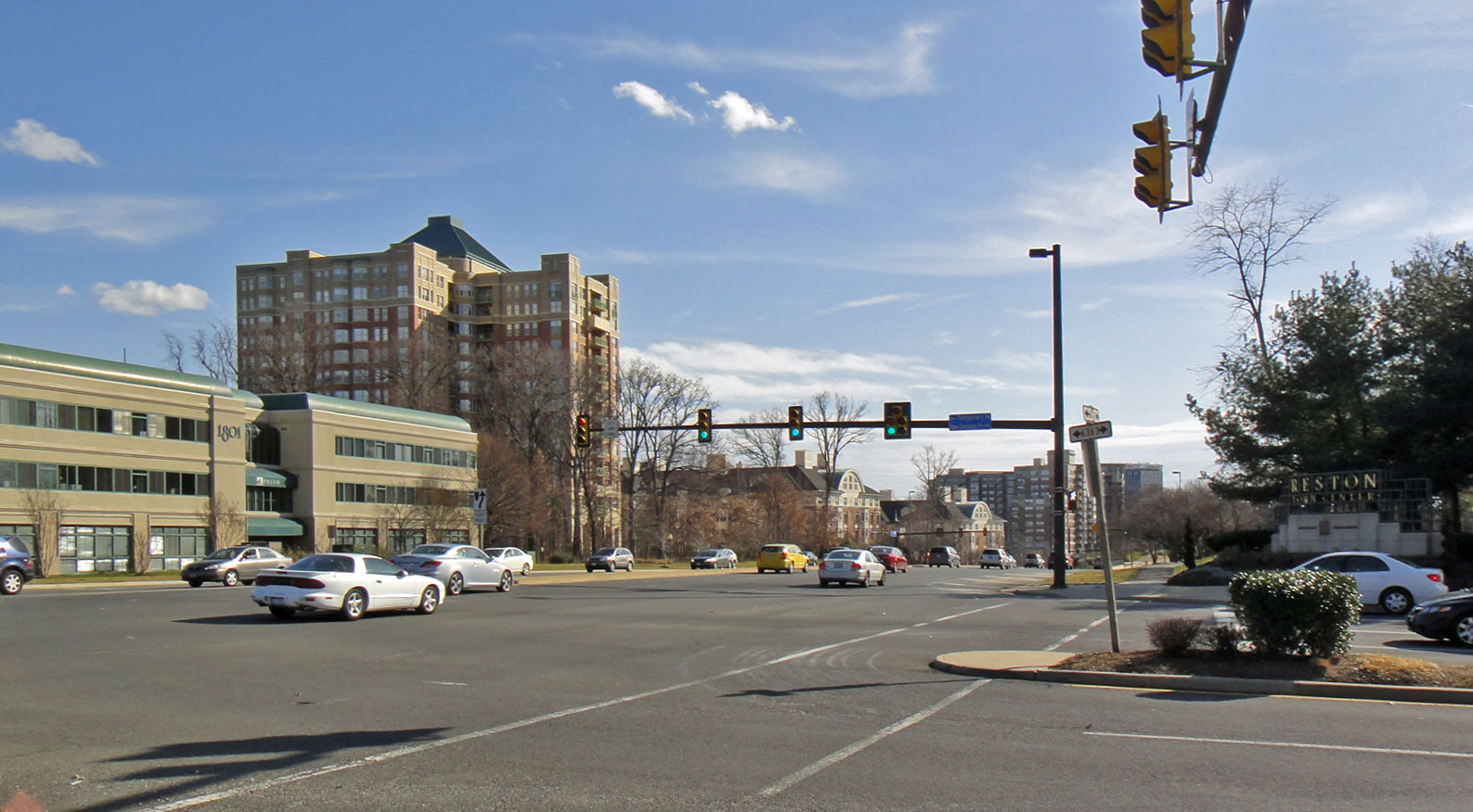 North & east edges along Reston Parkway